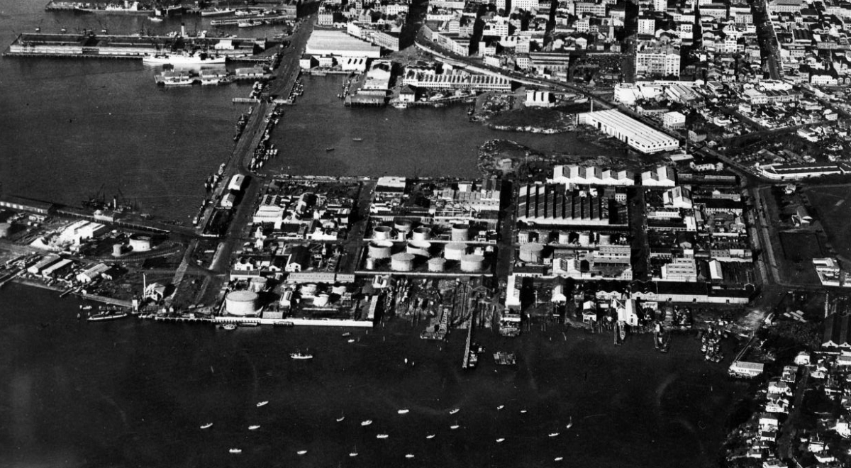 Looking east over what will one day become Wynyard Quarter in the foreground, then still the 'Tank Farm' or 'Western Reclamation' in Auckland City, New Zealand in the 1950s. Coordinates approximate, but reasonably exact in the north-south axis, and likely somewhere above Point Erin.